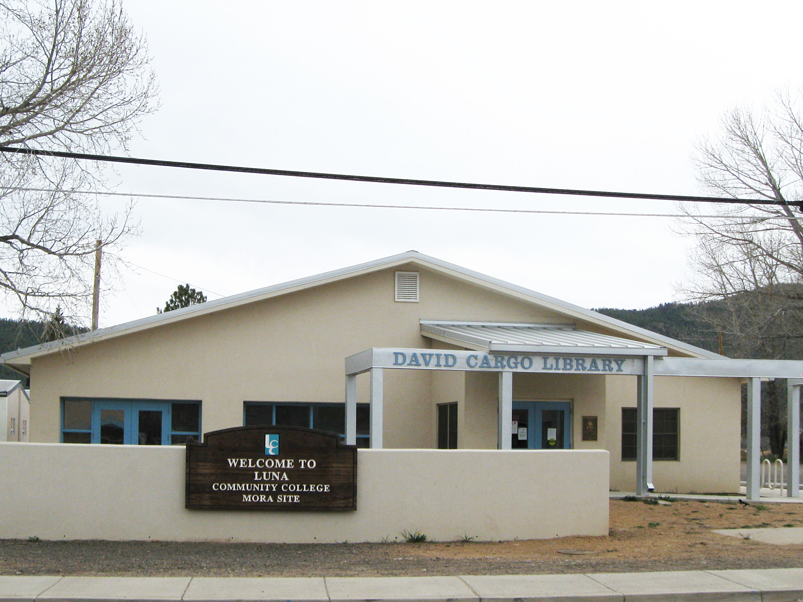 David F. Cargo Public Library, located on New Mexico Highway 518 in Mora, New Mexico.